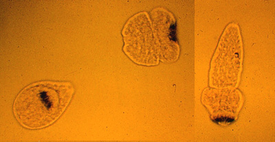 Microscopical view of tapeworm larvae on a hyalin layer.